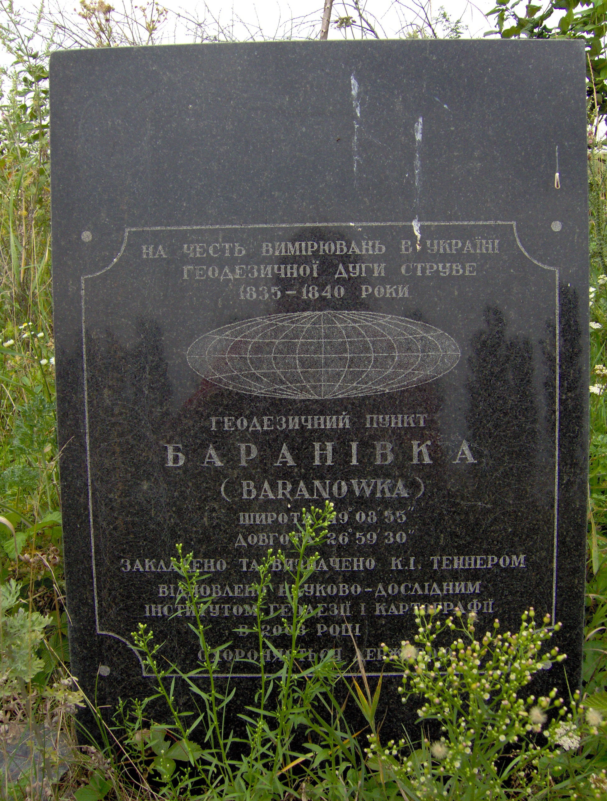 The commemorative plaque of the Struve Geodetic Arc in Baranivka (Баранівка), Ukraine.